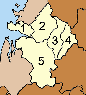 Map of Kapoe district, Ranong province, with the communes (tambon) numbered Muang Kluang (ม่วงกลวง) Kapoe (กะเปอร์) Chiao Liang (เชี่ยวเหลียง) Ban Na (บ้านนา) Bang Hin (บางหิน)